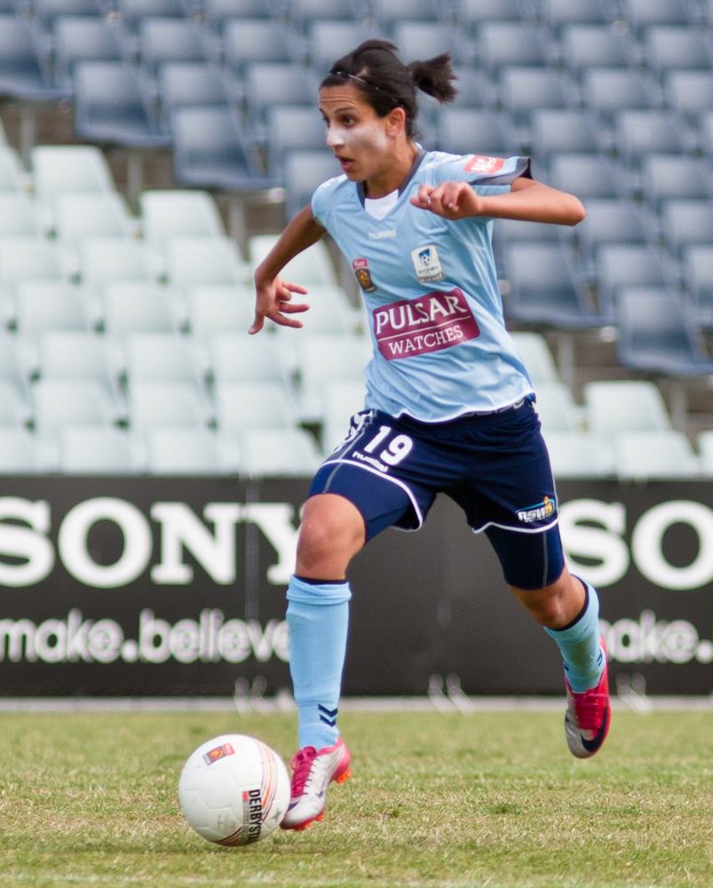 Leena Khamis playing for Sydney FC in the 2010-11 W-League.